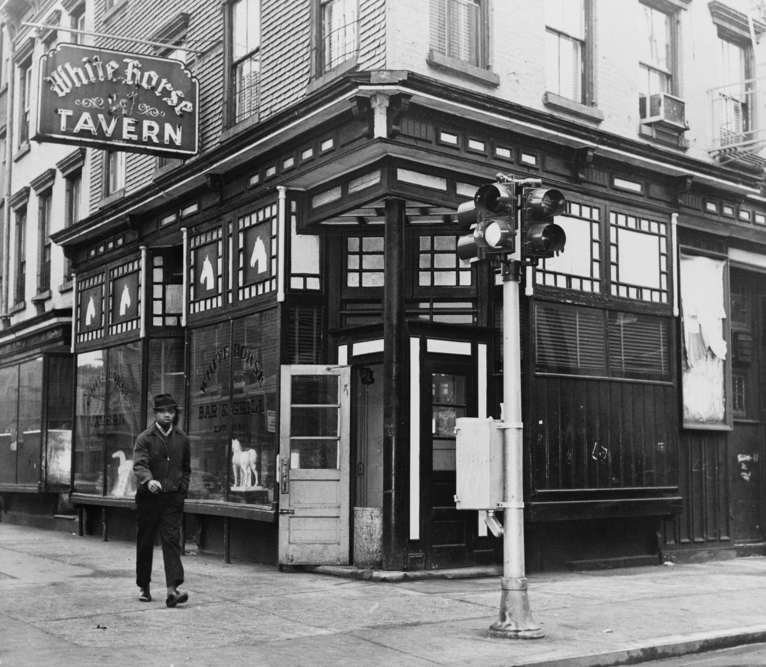 White Horse Tavern, New York City. Exterior view, with African American man walking by. Note two-light traffic signal. / World Telegram & Sun photo by Phyllis Twachtman.